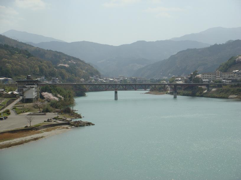 Ikeda_Ohashi_Bridge(Japan)